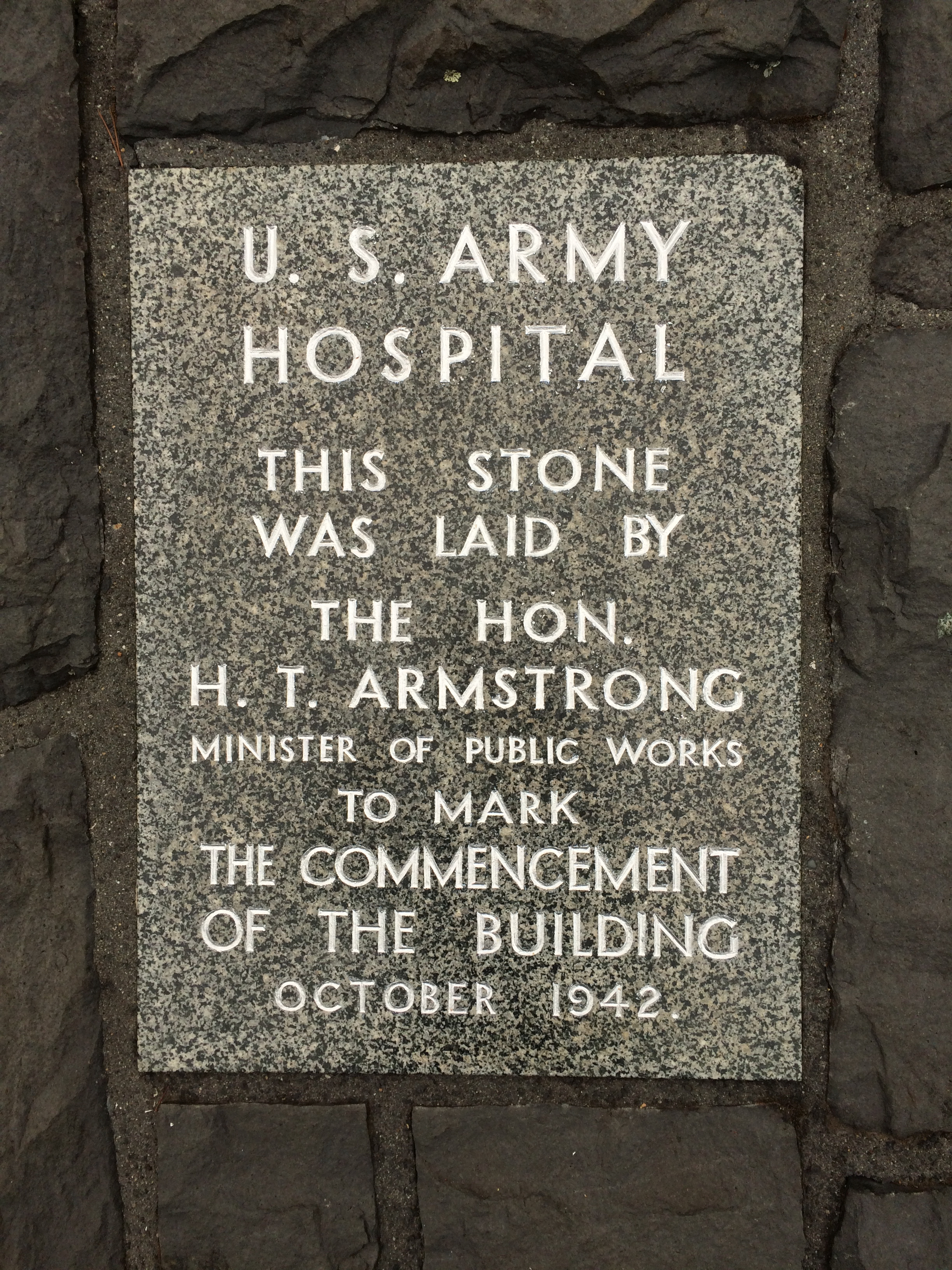 Plaque is located at the base of a flag pole to the east of Pohutukawa Drive, Cornwall Park, Auckland, New Zealand. The US Army 39th General Hospital became Cornwall Hospital (now defunct).